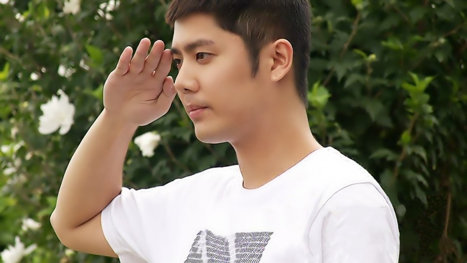 Kim Kyu Jong showing his army hair for the first time while saluting at Jeonju, North Jeolla Province on July 23, 2012.